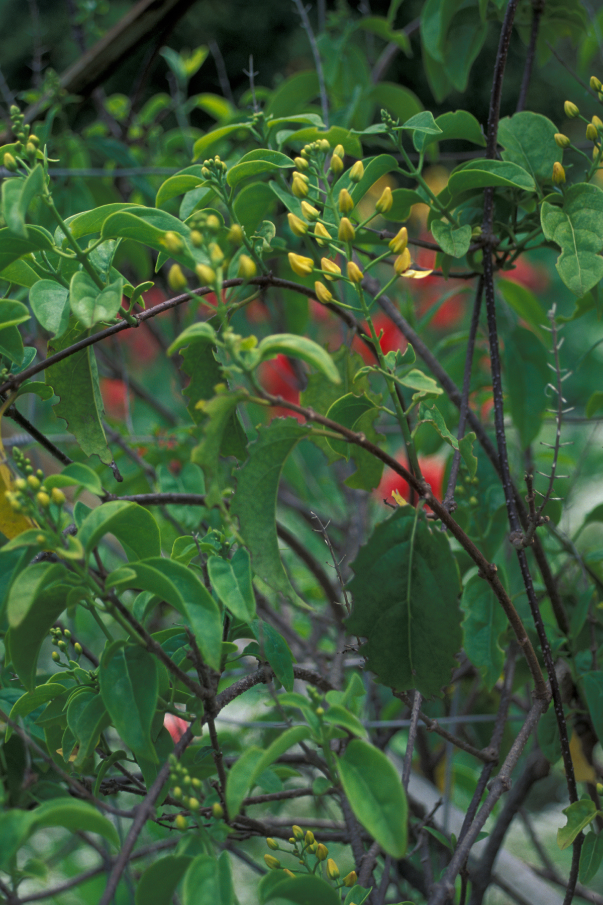 Tristellateia australasiae (flowers). Location: Maui, Enchanting Floral Gardens of Kula